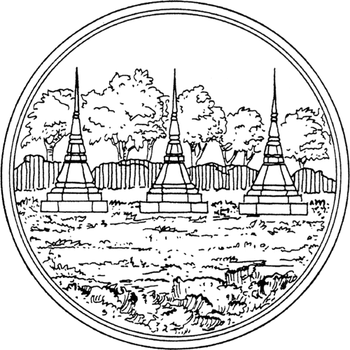 Provincial seal of Kanchanaburi province.